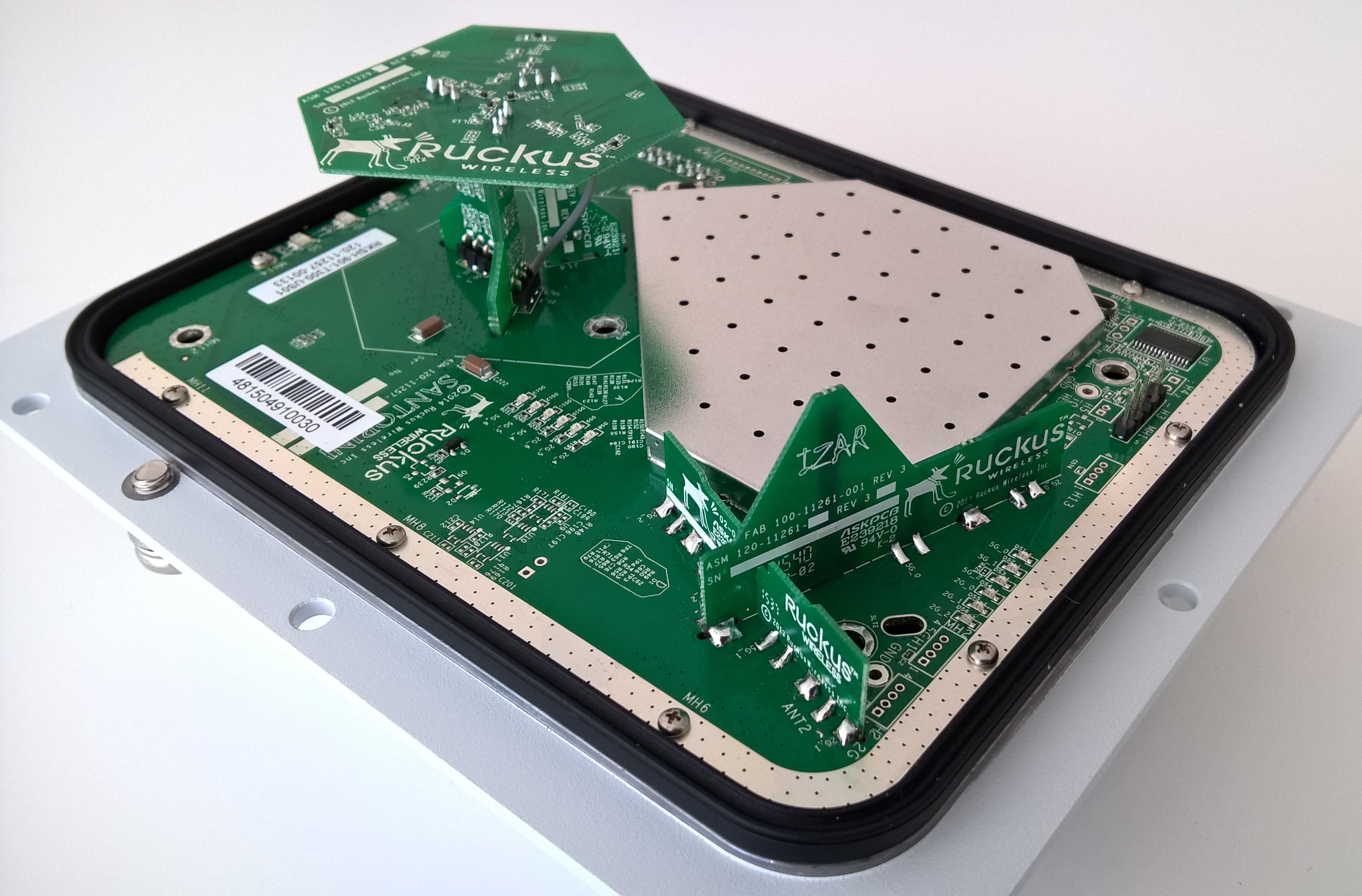 Antennas of Ruckus Wireless ZoneFlex T300, outdoor access point, concurrent dual-band 802.11abgn/ac, 2x2:2 streams, BeamFlex+